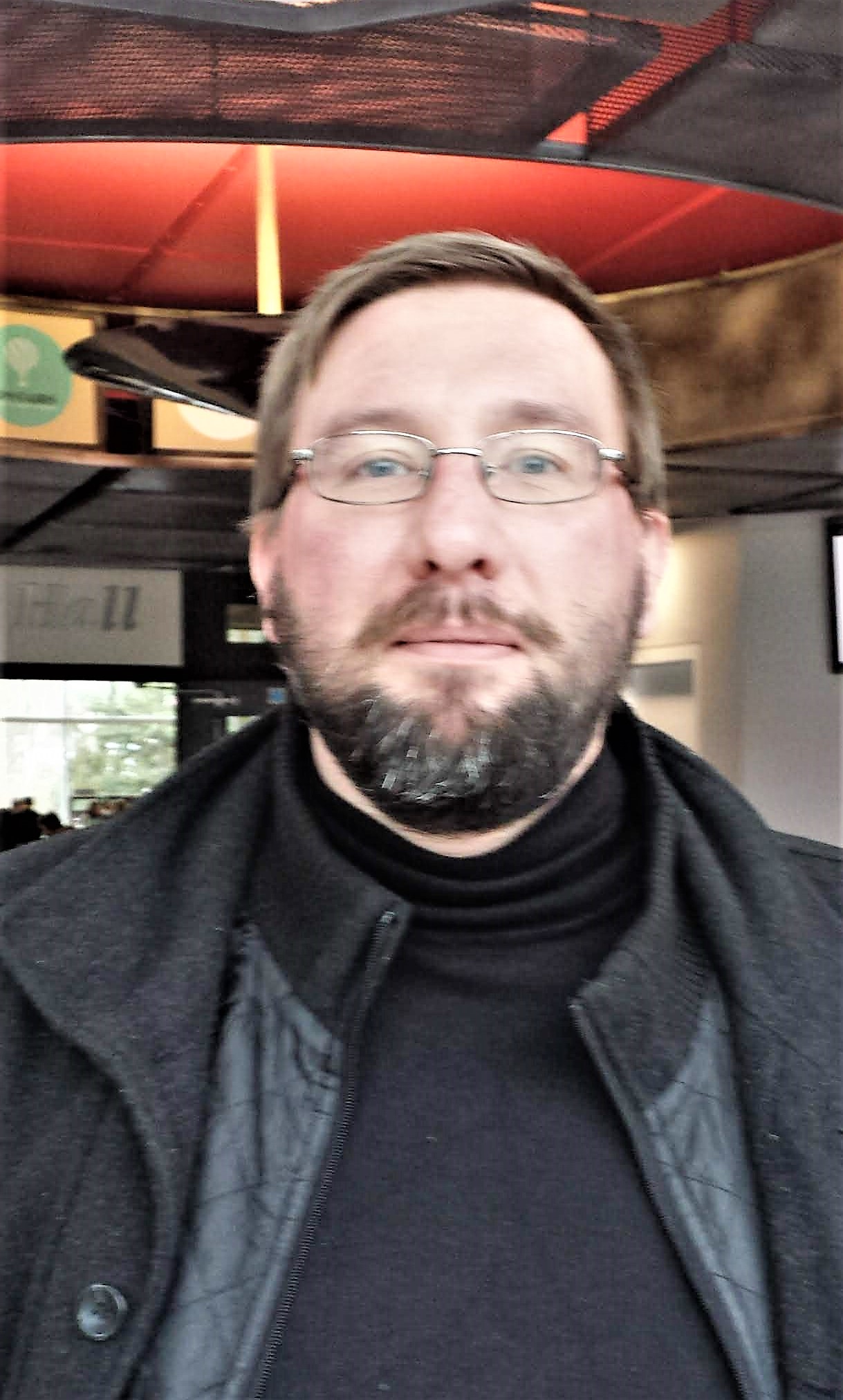 Gareth Hanrahan at Warpcon in UCC 2019